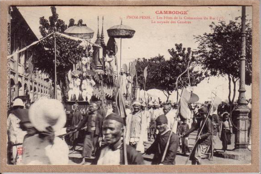 The procession of His Majesty King Norodom's body 1906